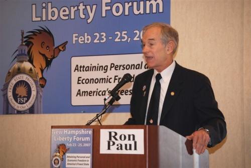 Given permission by creators and owners (namely, board members of the Free State Project) to upload this image with a share-alike license.